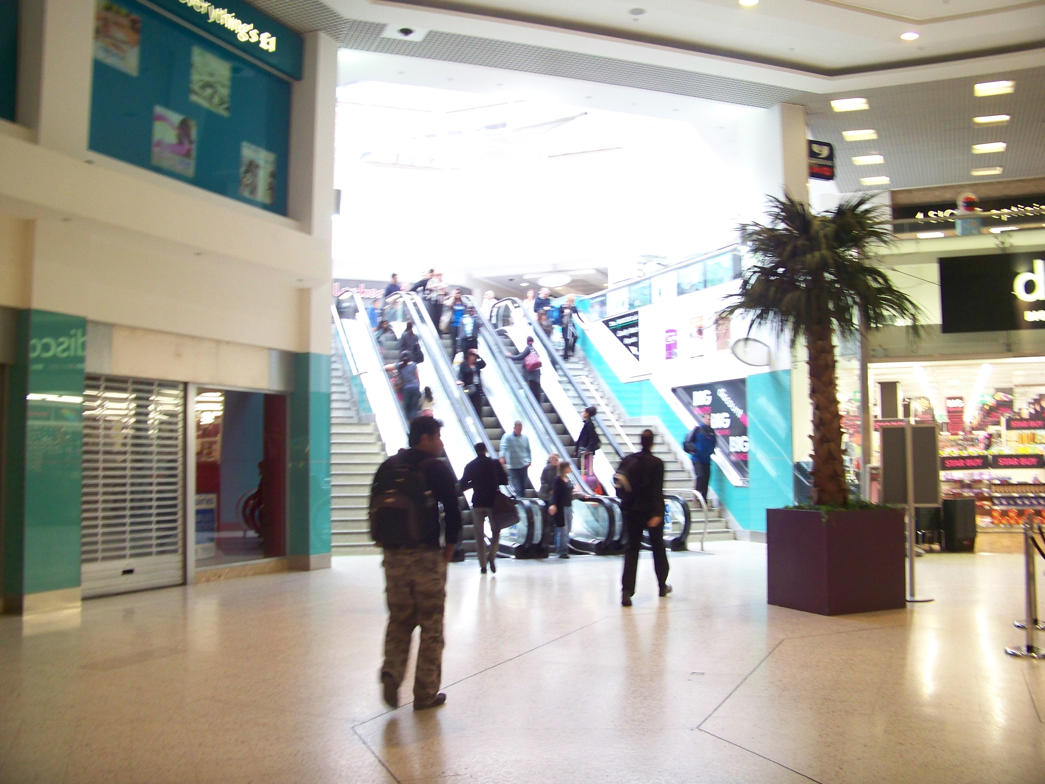 Interior of the St John's Centre, Leeds, West Yorkshire. The main escalators can be see. Poundland can also be seen, this used to be the Index catalogue shop. Taken on Monday the 11th of April 2014.